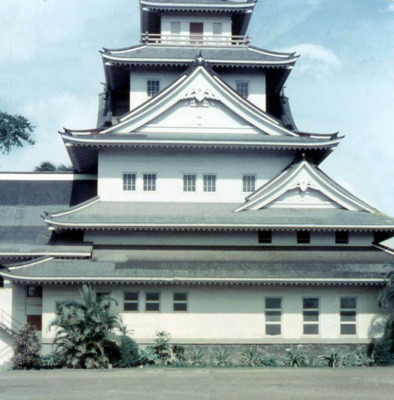 Makiki Christian Church, Honolulu